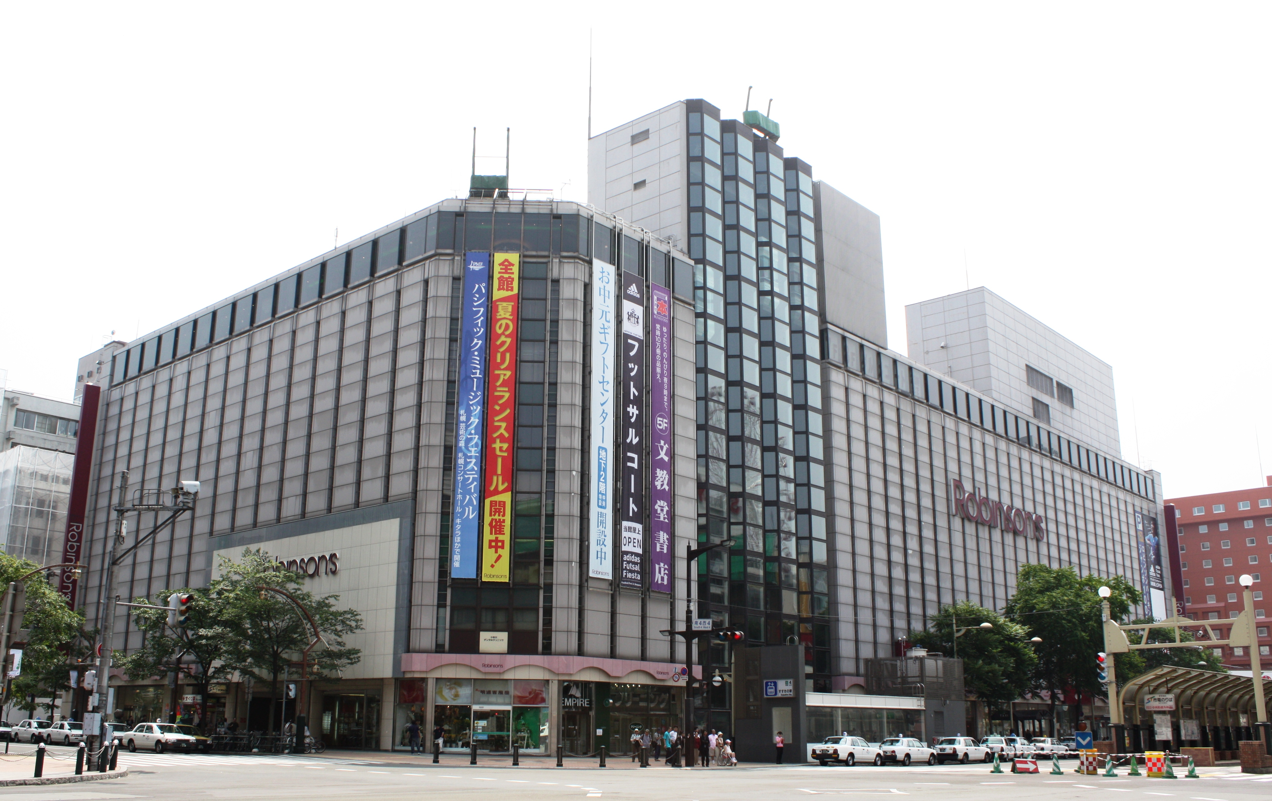 Robinson's in Sapporo (Sapporo, Hokkaido, Japan)